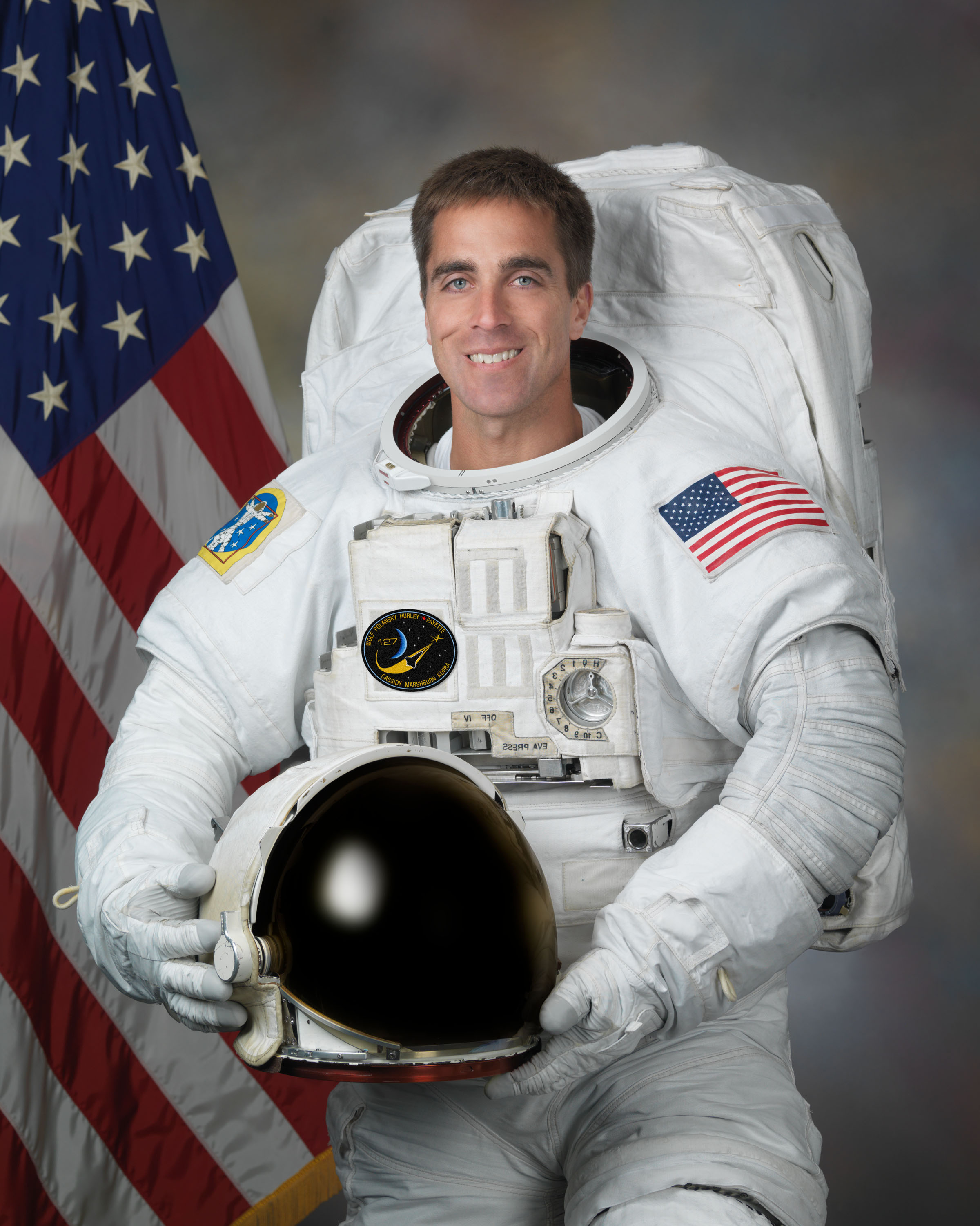 Astronaut Christopher J. Cassidy, mission specialist